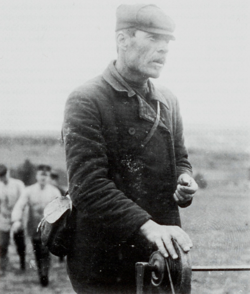 A Russian sawfiler, Peter Alexandrovich Boboshkin from Nizhny Novgorod Governorate, somewhere in Sweden, where he has placed his filing machine on military territory.